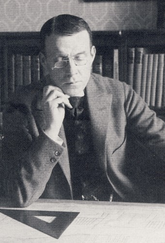 Architect Erik Lallerstedt, ca 1920